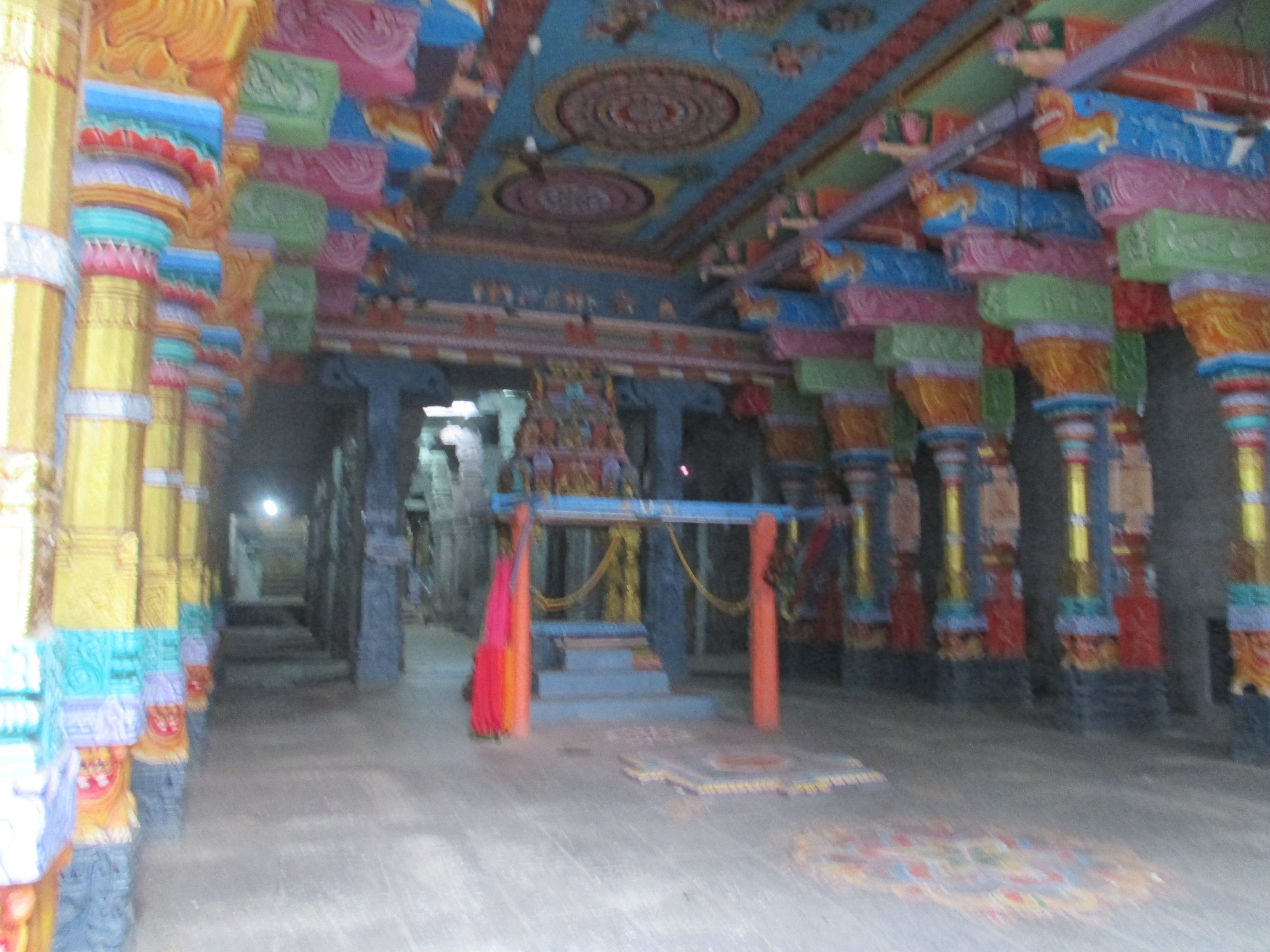 Ulagalantha Perumal Temple, Tirukoyilur